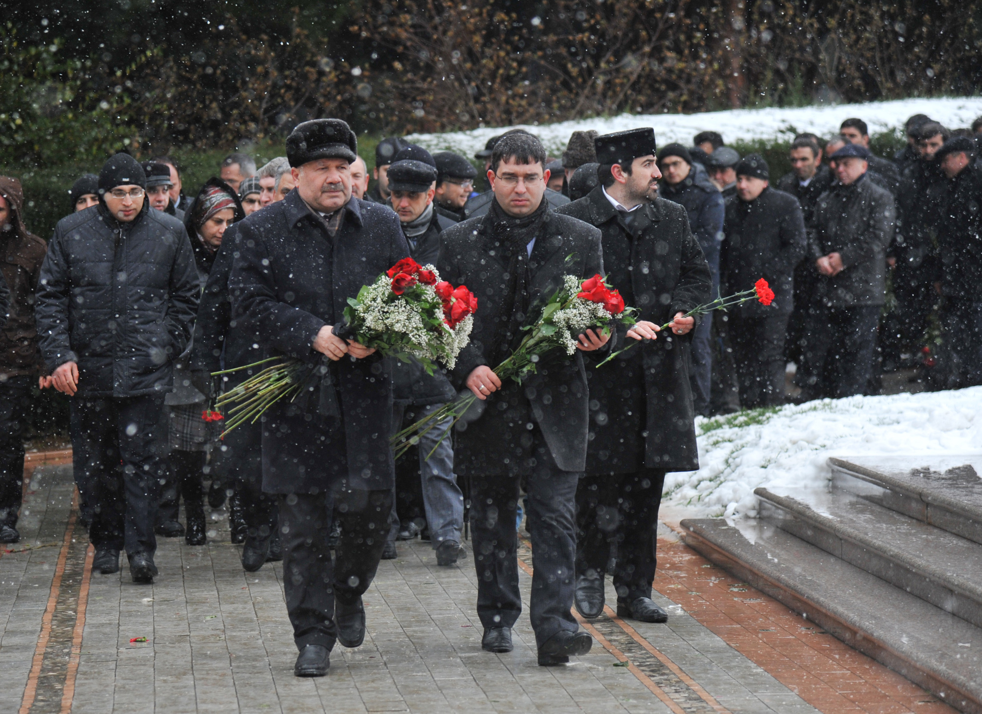 Seyyad Aran visits Heydar Aliyev Grave